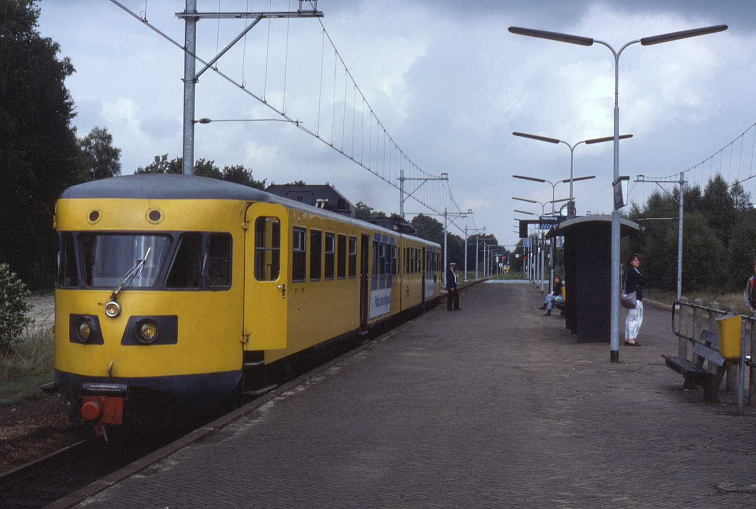 Located in the far South East of the Netherlands in the Limburg region is a short non-electrifield line linking Schin op Guel with Kerkrade. Back in 1986, a 2-hourly DMU service worked by 2-car DEII (Plan X-v) DMUs was the normal service. Seen on 2 September 1986, no. 186 has arrived on the 13:03 Valkenburg to Kerkrade Centrum. Nowadays the line is operated by Veolia using Stadler GTW units.